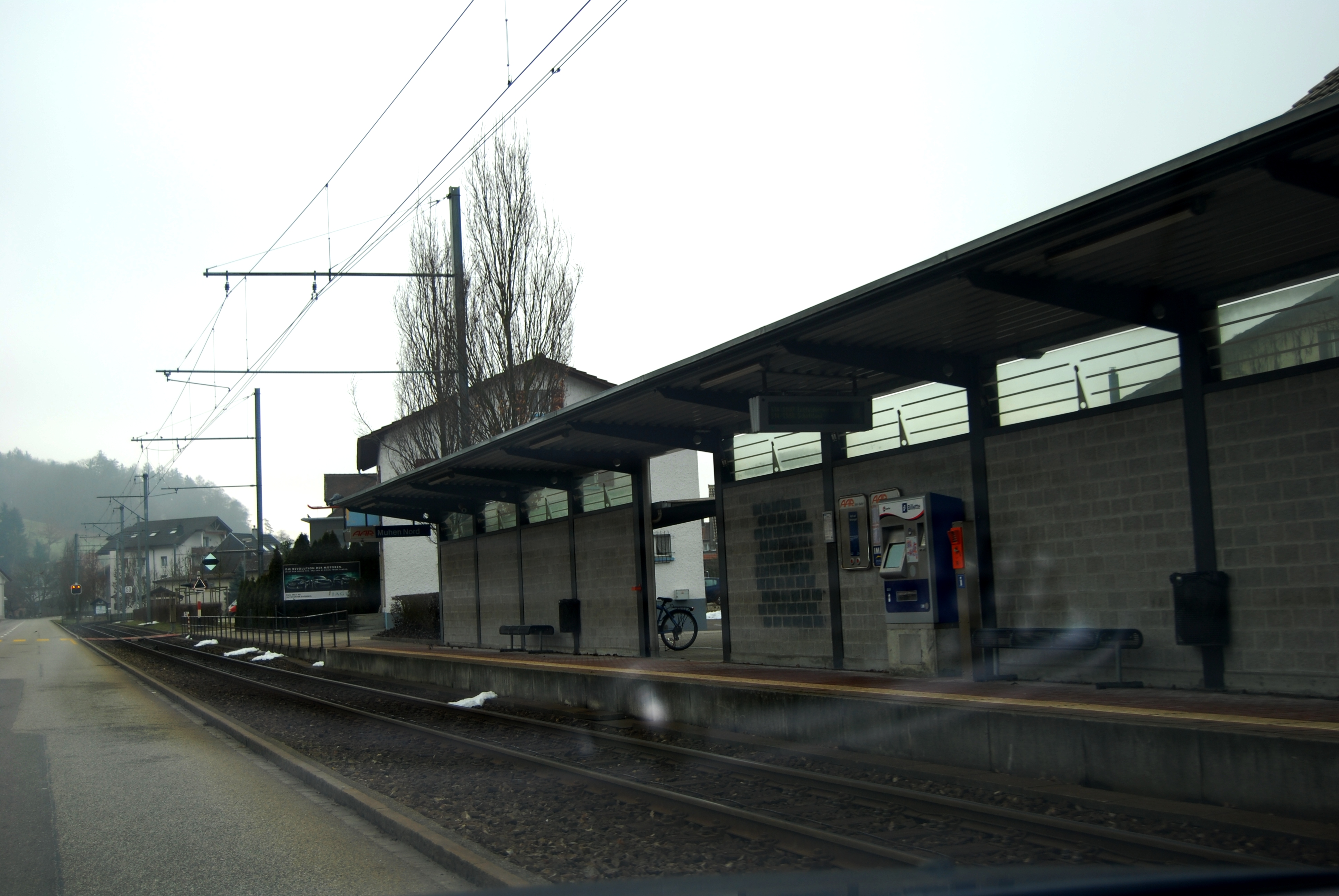 Train station Muhen-Nord, canton of Aargau, SwitzerlandEsperanto: Trajnhaltejo Muhen-Nordo, Kantono Argovio, Svislando